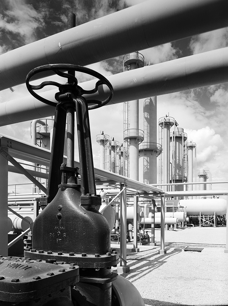 Title: For Hudson Engineering Corp. At Carthage Creator: Robert Yarnall Richie Date: October 1949 Place: Carthage, Texas Part Of: Robert Yarnall Richie Photograph Collection Physical Description: 1 negative: film, black and white; 17.9 x 12.7 cm. File: ag1982_0234_3187_013_hudsonengco_sm_opt.jpg Rights: Please cite DeGolyer Library, Southern Methodist University when using this file. A high-resolution version of this file may be obtained for a fee. For details see the web page. For other information, . For more information, View the Robert Yarnall Richie Photograph Collection